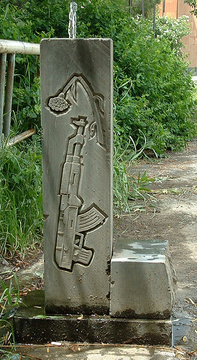 War memorial fountain, near Vaik, Armenia (on the way to Nagorno-Karabagh). Taken by Devin Murphy, May 2003.